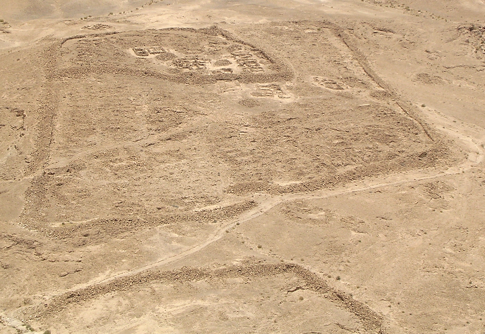 Roman legionary (X Fretensis) castra at Masada, Israel, viewed from the fortress walls; constructed 72-73 CE.